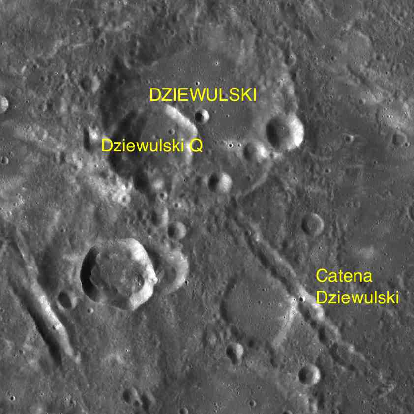 Part of the chart LAC-46 used for the presentation